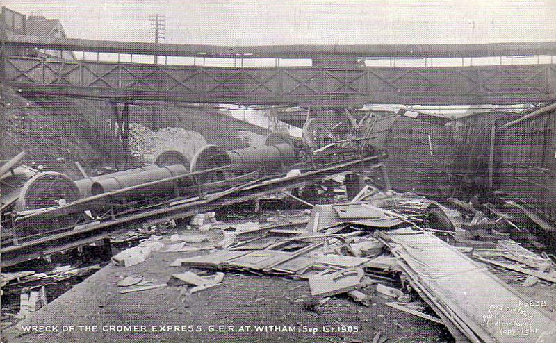 Witham Railway Station Accident September 1st 1905. Author over 100 years old. I own postcard to which scan was taken.